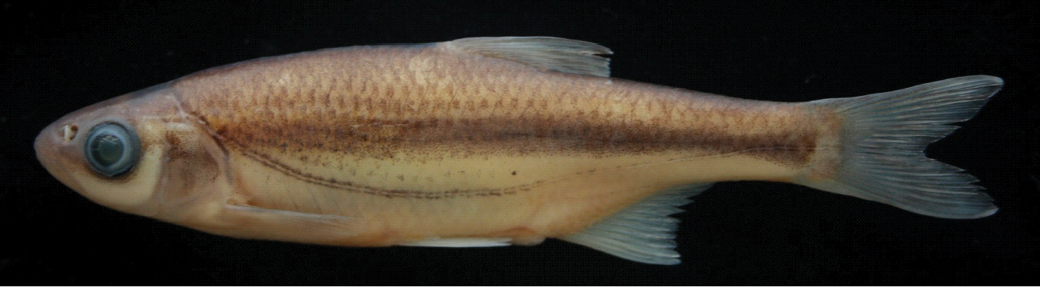 Alburnoides tzanevi; Turkey: İstanbul Province: Terkos Stream, FFR 1066, female, 77 mm SL.